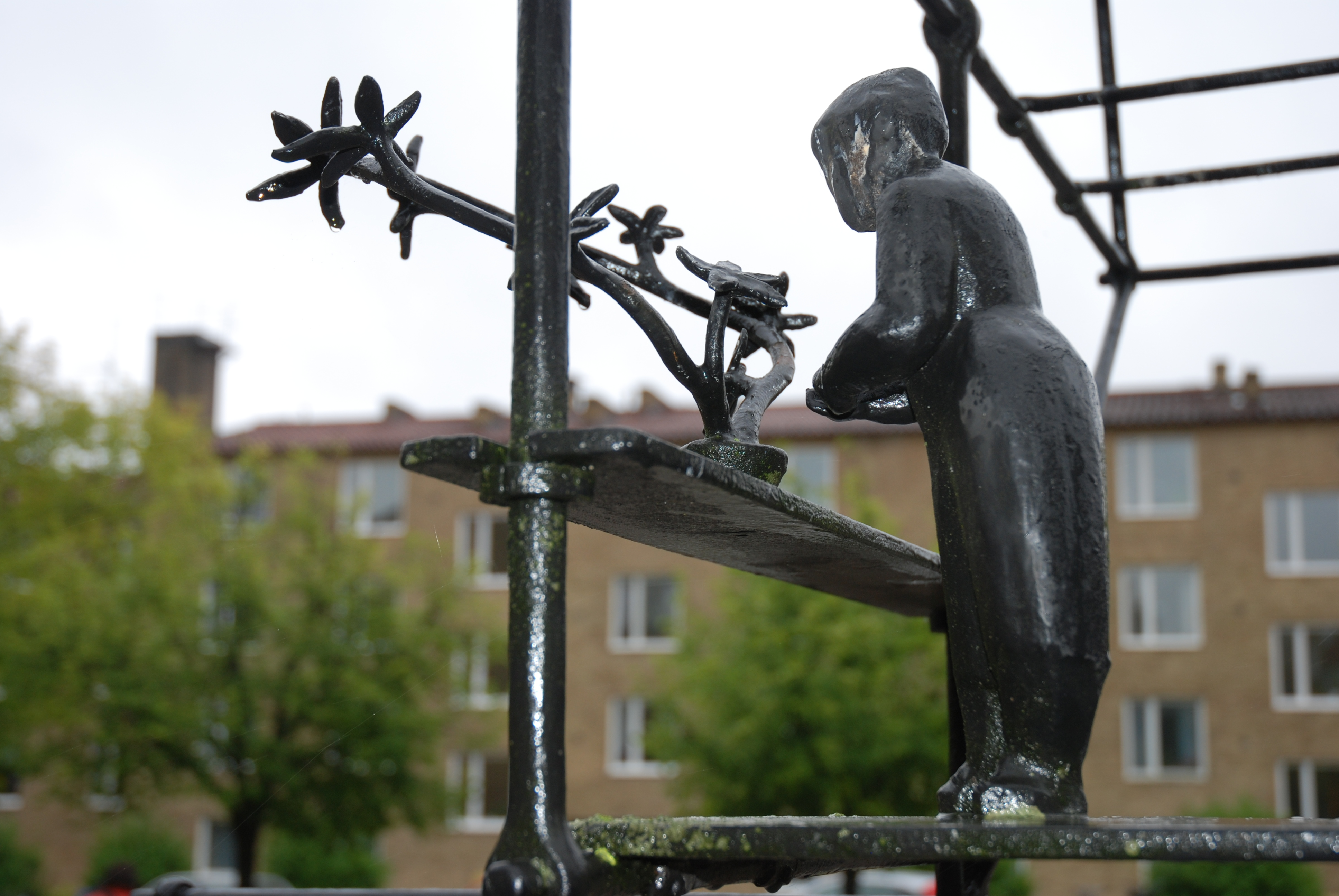 Detail of The House by Swedish sculptor Liss Eriksson, Lund, Sweden